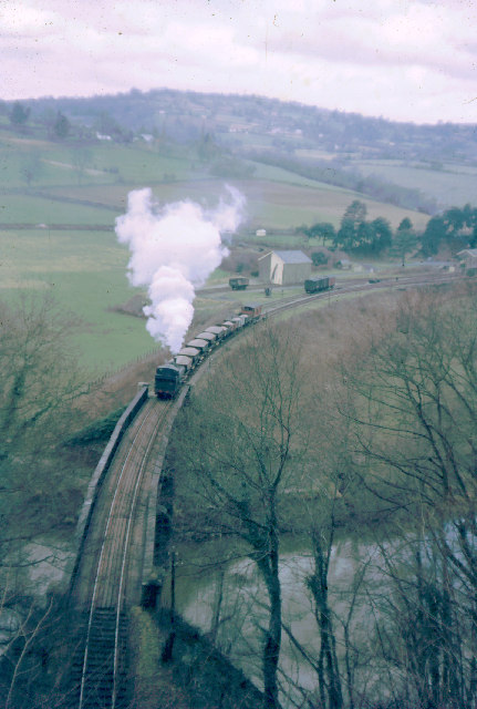 Stone train leaving Tintern. Tintern Station is on the far right, the train is crossing the River Wye heading towards Chepstow. The line was originally constructed by the Wye Valley Railway.